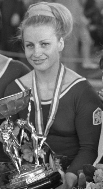 Vera Caslavka at the 1967 European Women's Artistic Gymnastics Championships